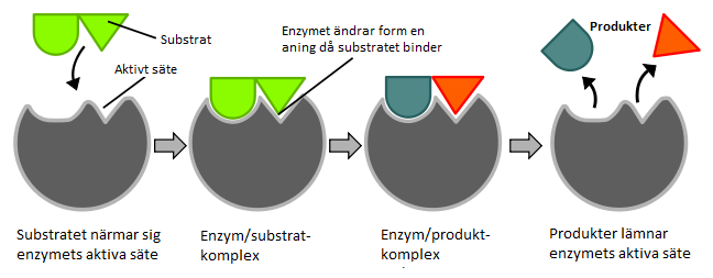 Diagram, with Swedish captions, illustrating the induced fit model of enzyme activity.